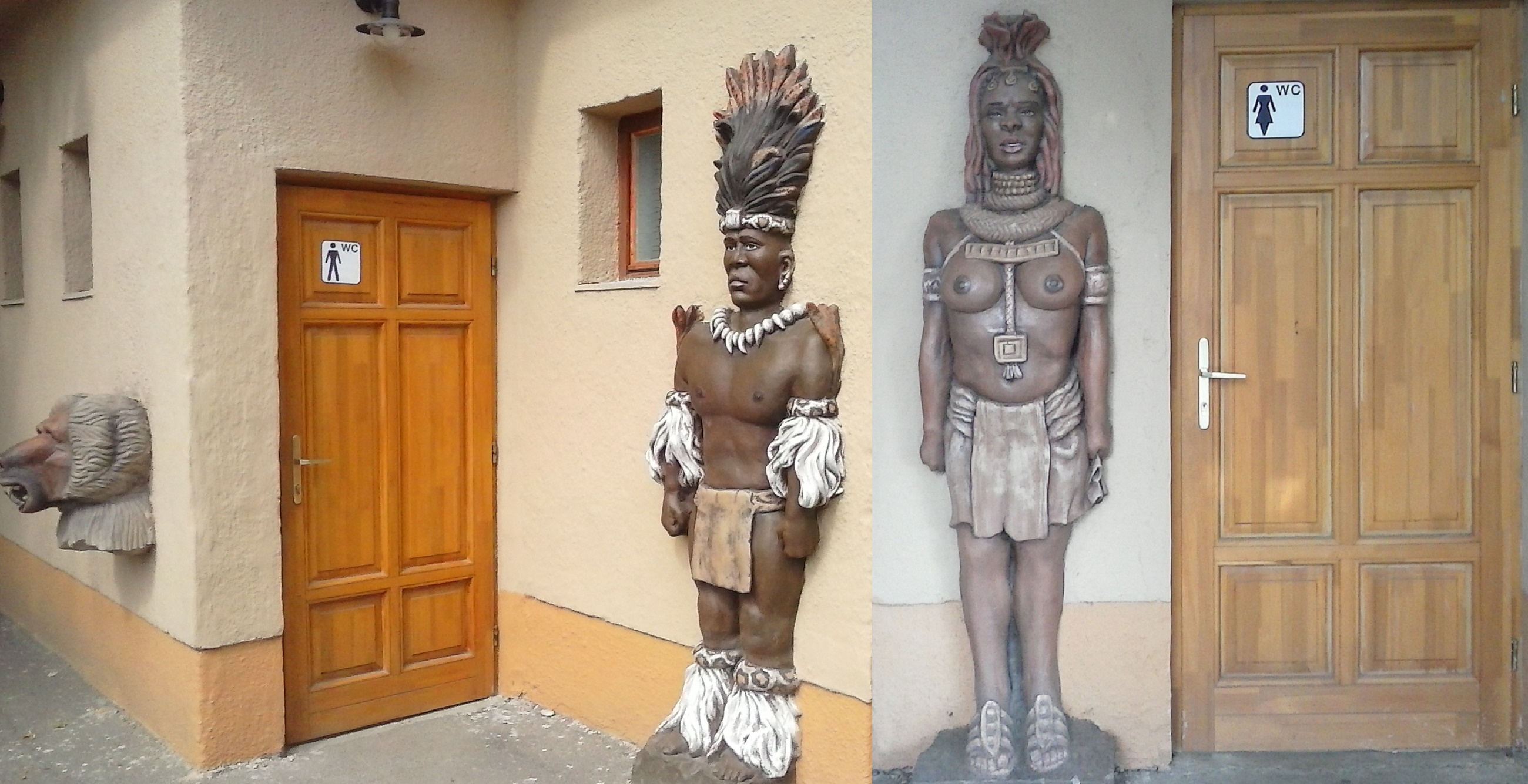 Toilet signs in the Györ zoo, Hungary